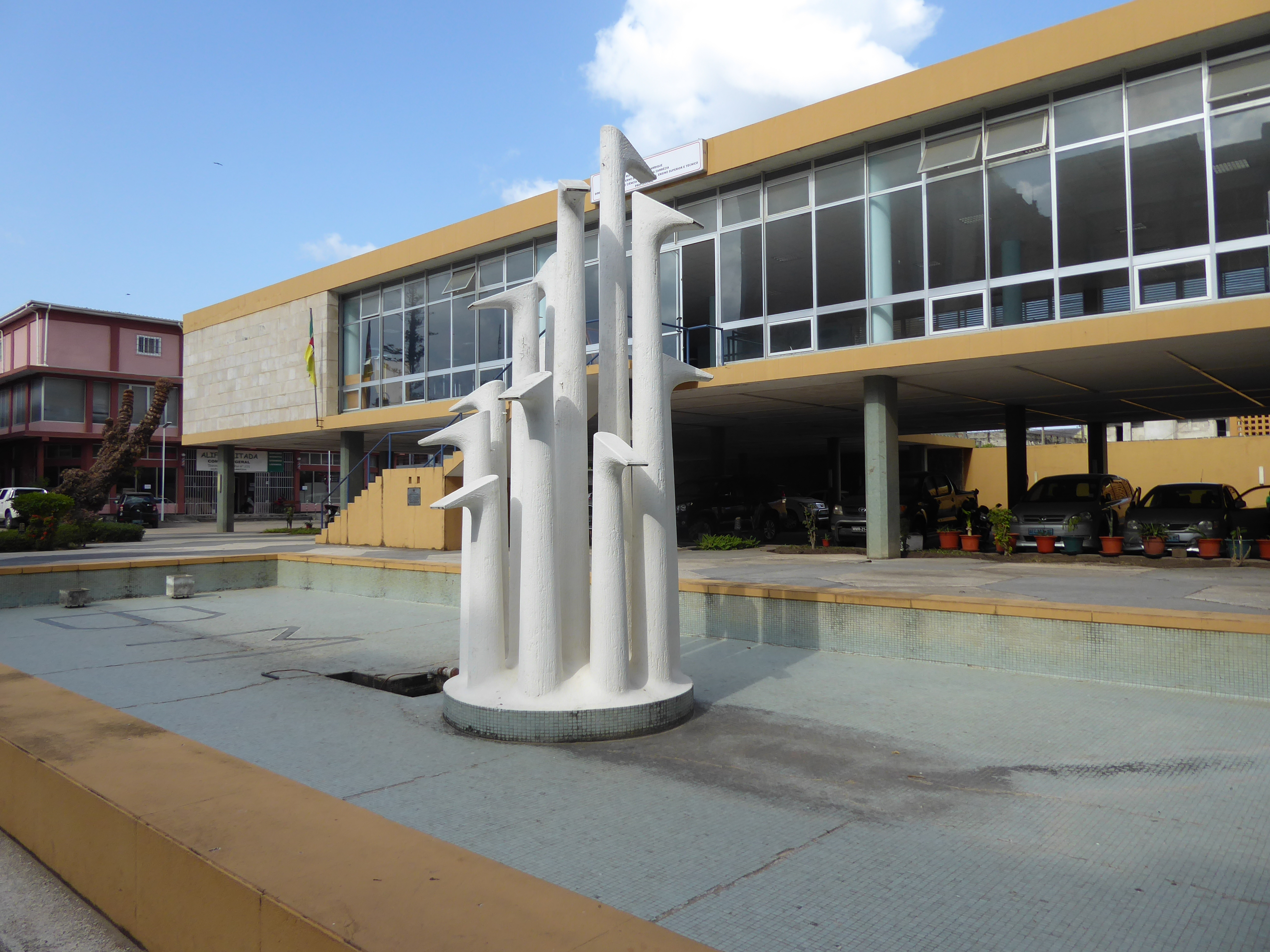 Banco de Moçambique building in Quelimane, Zambézia province, Mozambique